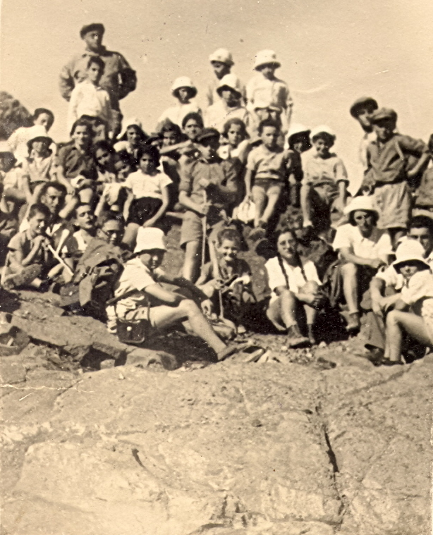 Children from Kibuts Beit-Alfa at a journey near the Gilboa mountain